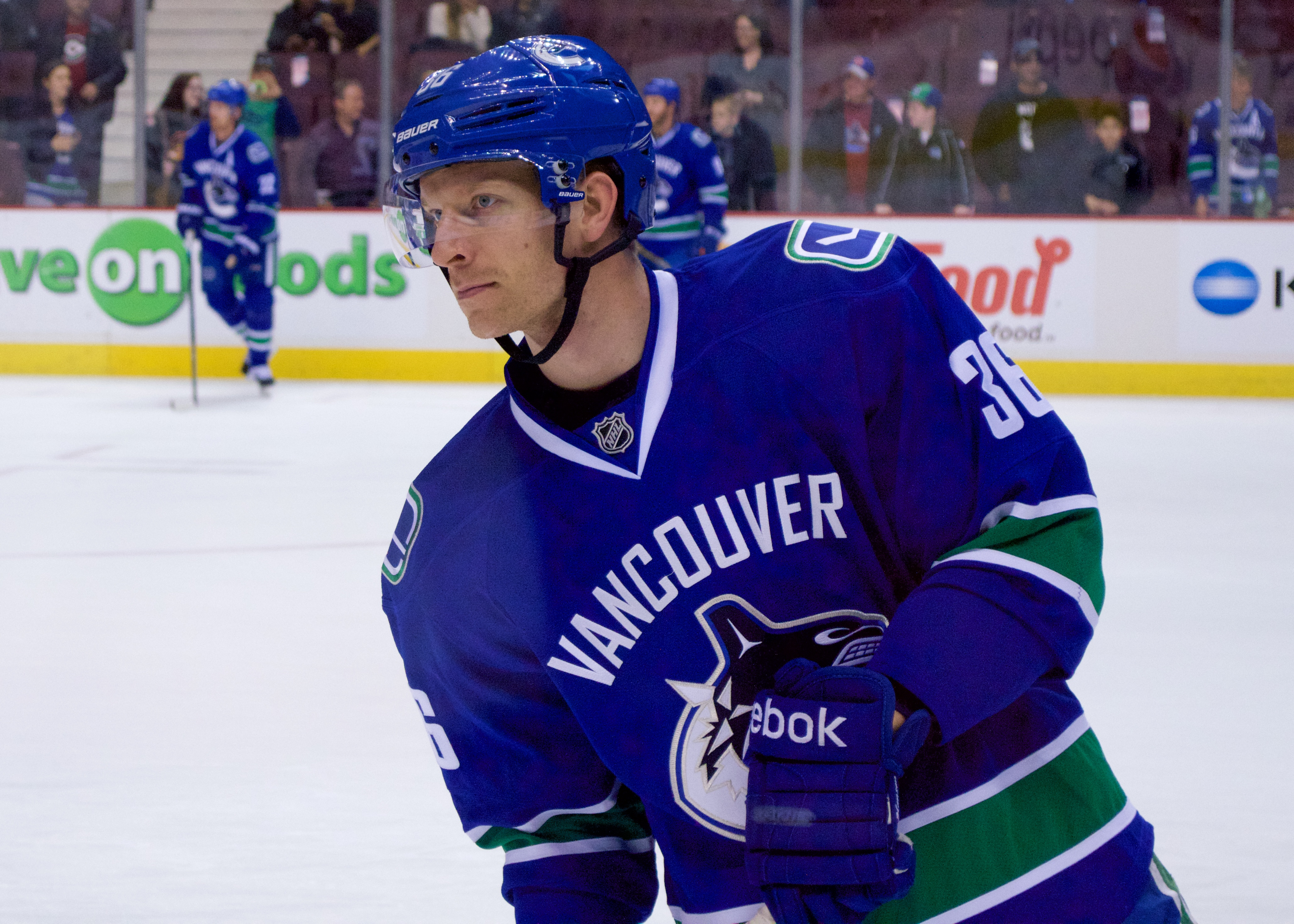 Vancouver Canucks forward Jannik Hansen during pre-game warmup on October 22, 2015.